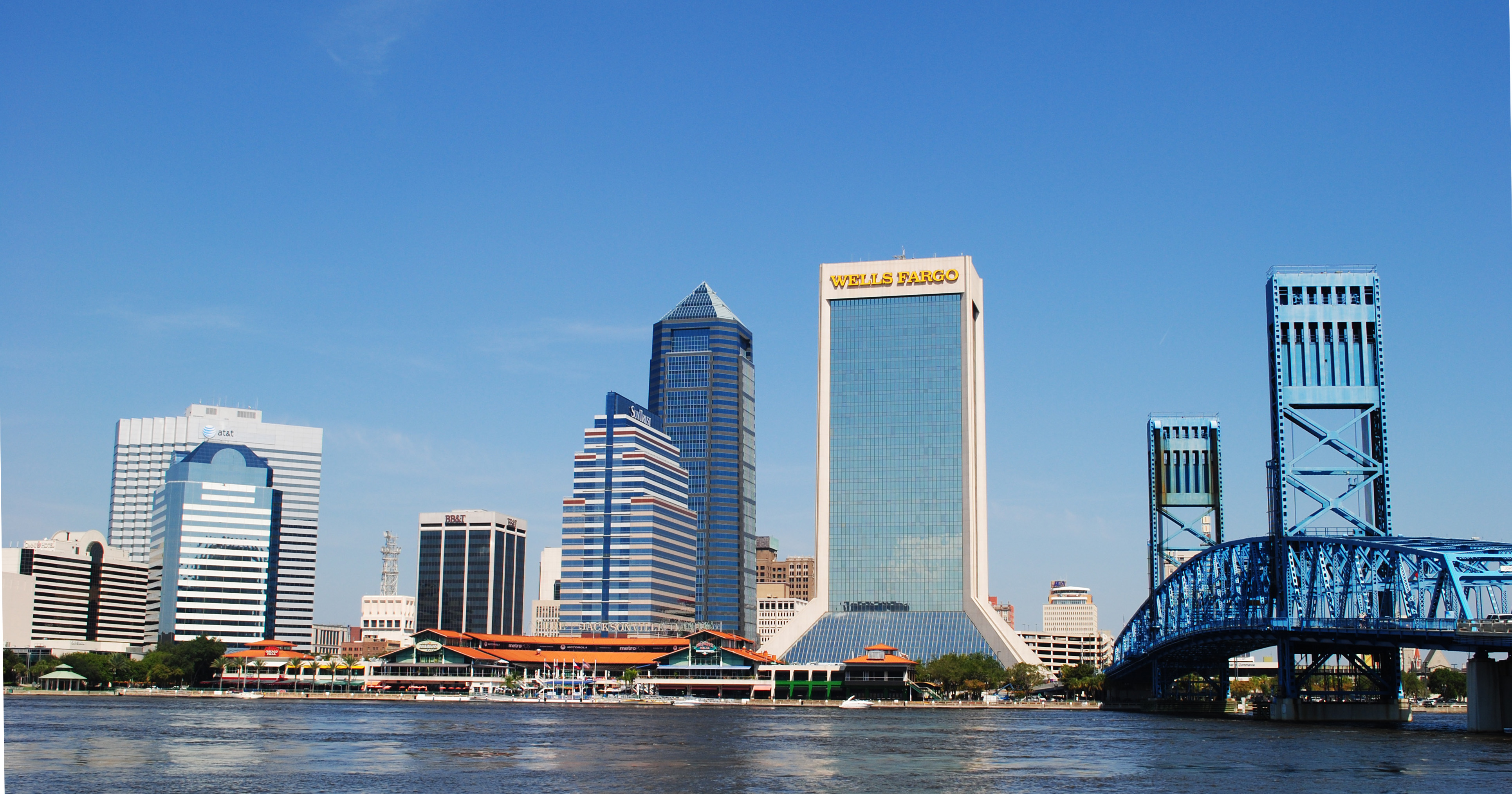 Downtown Jacksonville with new Wells Fargo logo on building.